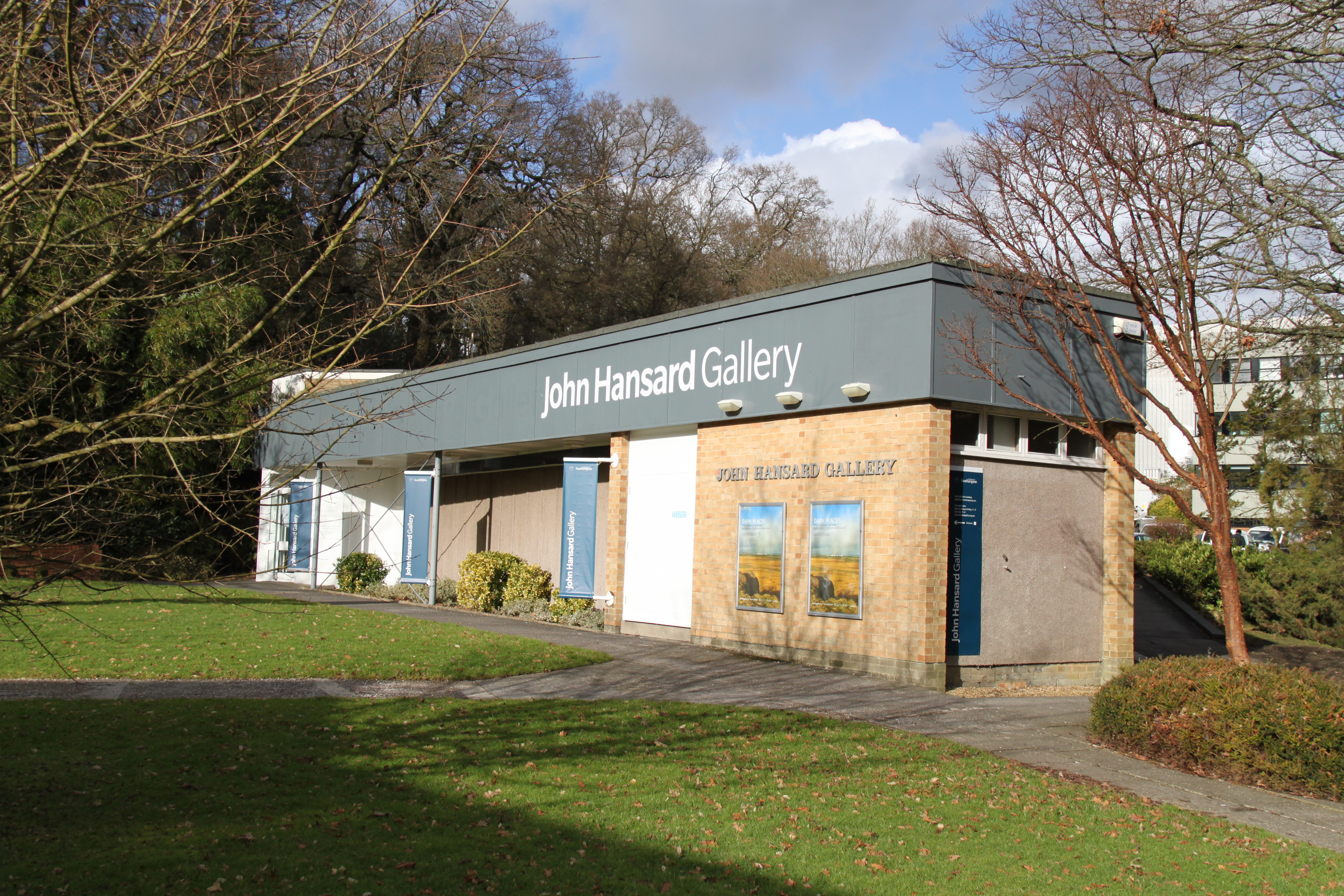 John Hansard Gallery, Southampton, UK, External View, 2010